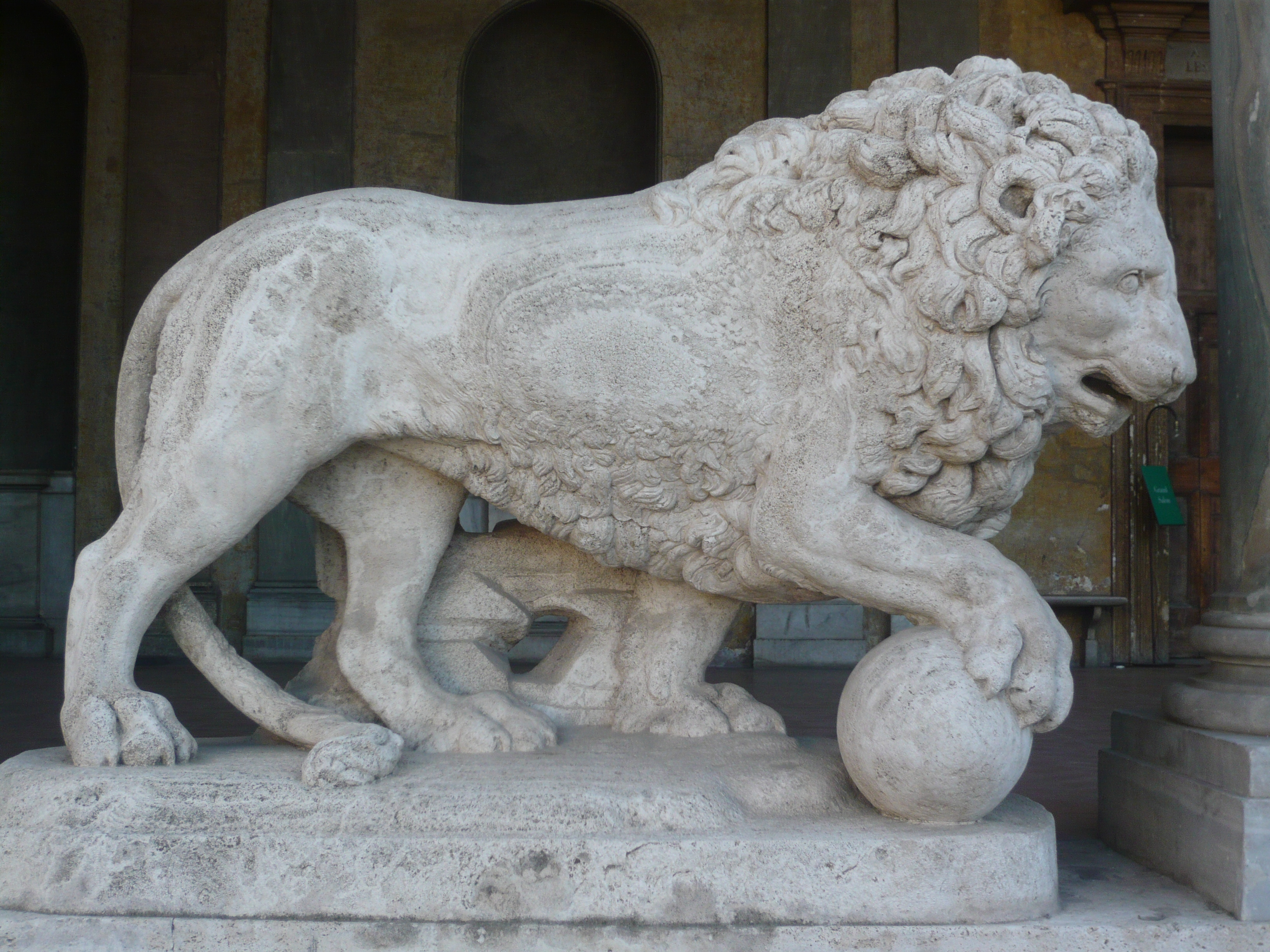 Medici lions at the villa medicis in roma.